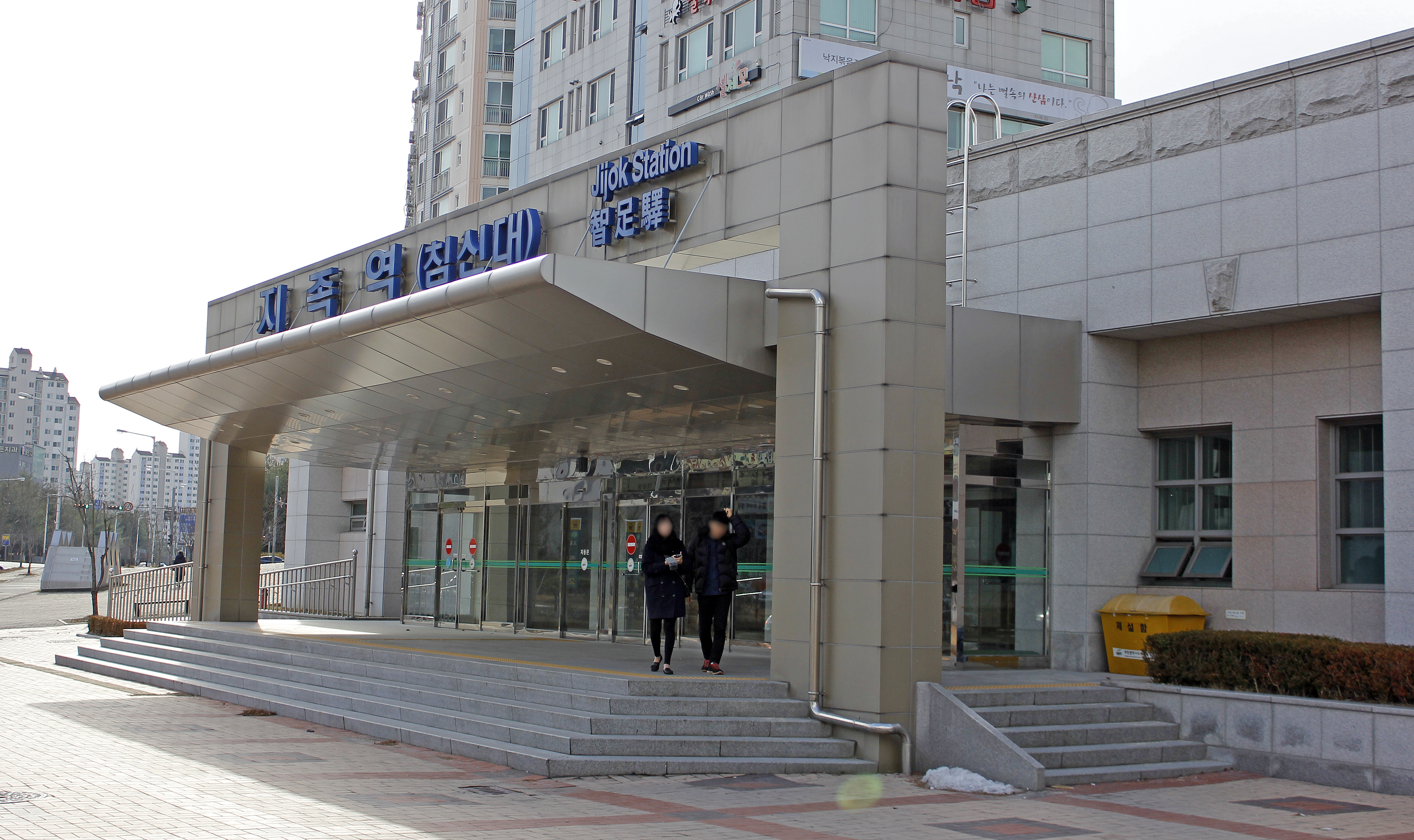 Jijok Station Exit #2